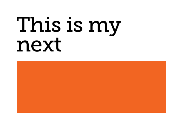 Logo for the website "This is my next"